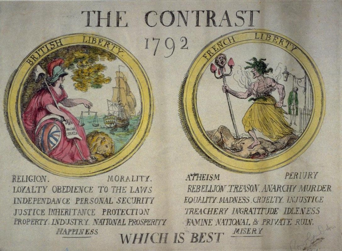 Caricature by Thomas Rowlandson after a design by Lord George Murray: The Contrast 1792 / Which Is Best, showing a contrast of "British Liberty" vs. "French Liberty". On Left: Britannia with a lion at her feet, holding "Magna Carta" and a pole with a liberty (Phrygian) cap on it (instead of the usual trident), to emphasize British liberty under law. A lion is at her feet, and a ship sails off in the background. Inscription: "Religion, Morality, Loyalty, Obedience to the Laws, Independence, Personal Security, Justice, Inheritance, Protection, Property, Industry, National Prosperity, HAPPINESS." On Right: Scrawny ill-clad personification of France with Medusa snakes instead of hair, treading on beheaded corpse with man hanged from lantern-post in background. Inscription: "Atheism, Perjury, Rebellion, Treason, Anarchy, Murder, Equality, Madness, Cruelty, Injustice, Treachery, Ingratitude, Idleness, Famine, National & Private Ruin, MISERY" Overall question, "Which is best?" Published on behalf of the Association for the Preservation of Liberty and Property against Republicans and Levellers, 1792. Hand-coloured etching. British Museum, London.